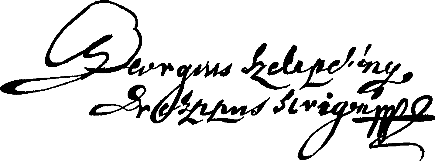 signature of Juraj Szelepcsényi-Pohronec, archbishop of Esztergom.